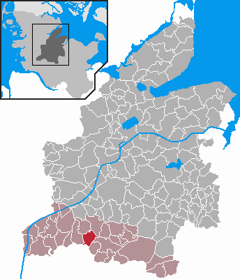 Locator maps of municipalities in Schleswig-Holstein - District Rendsburg-Eckernförde